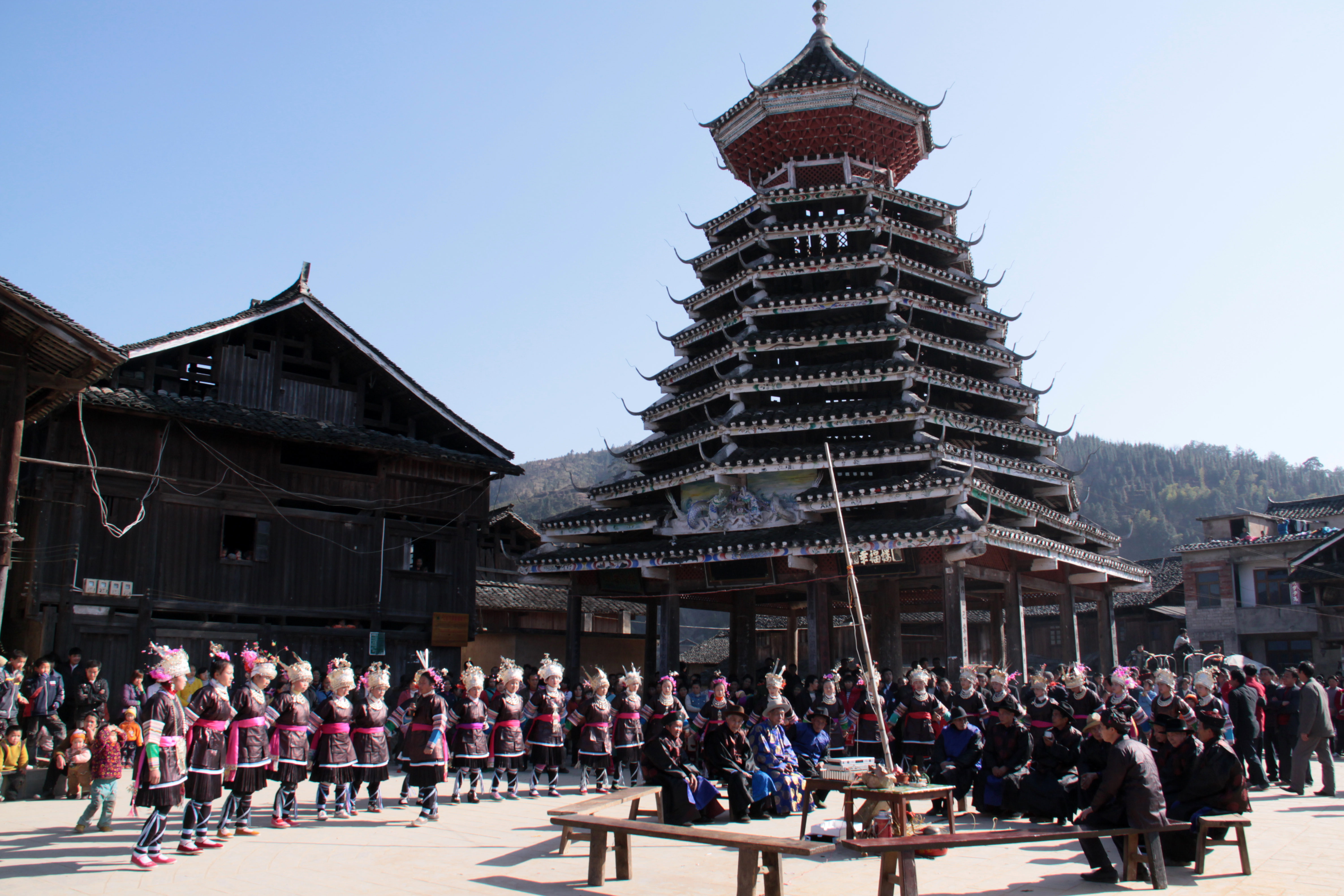 china, guizhou, new year feast in Dong people (侗族)